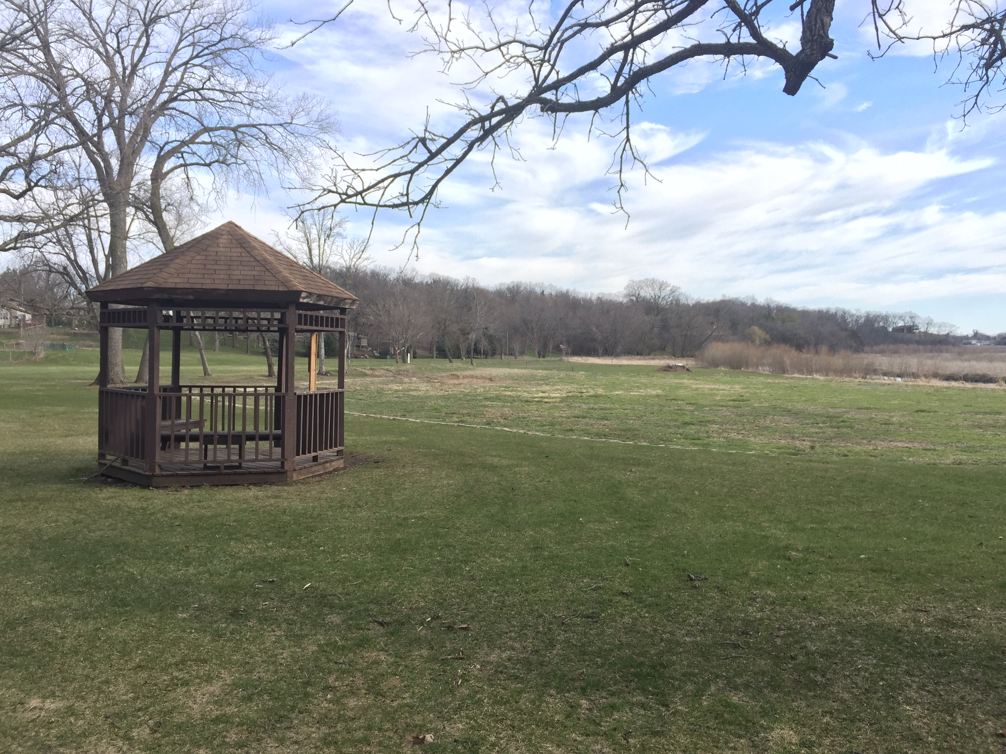 Pavilion and former lakeshore in Oronoco Park, an Olmsted County park in Oronoco, Minnesota.